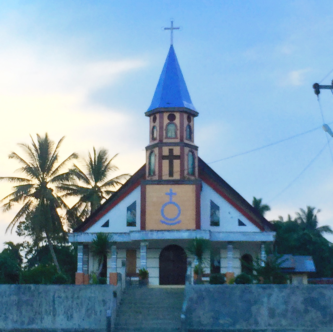 HKBP Bah Sampuran, Church in Bah Sampuran, Jorlang Hataran, Simalungun